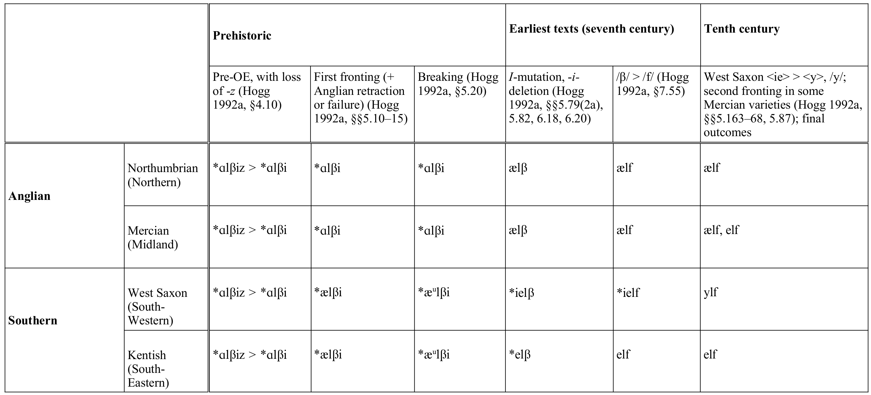 A chart showing how the sounds of the word 'elf' have changed in the history of English. The chart cites Richard M. Hogg, A Grammar of Old English, Volume 1: Phonology (Oxford: Blackwell, 1992). It has also been published in Alaric Hall, Elves in Anglo-Saxon England: Matters of Belief, Health, Gender and Identity, Anglo-Saxon Studies, 8 (Woodbridge: Boydell, 2007), p. 178 (fig. 7).